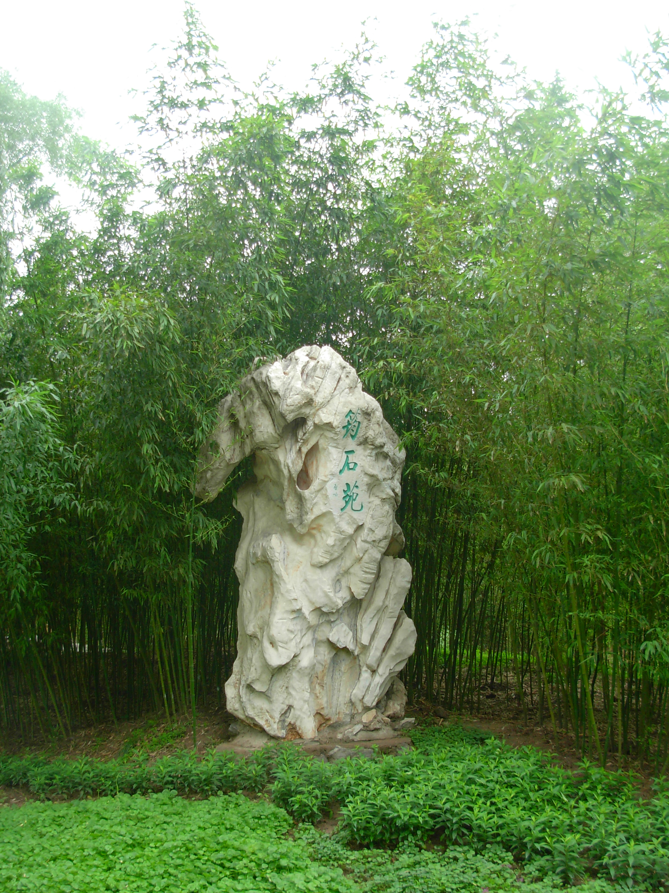 Purple Bamboo Park (Zizhuyuan) in Beijing